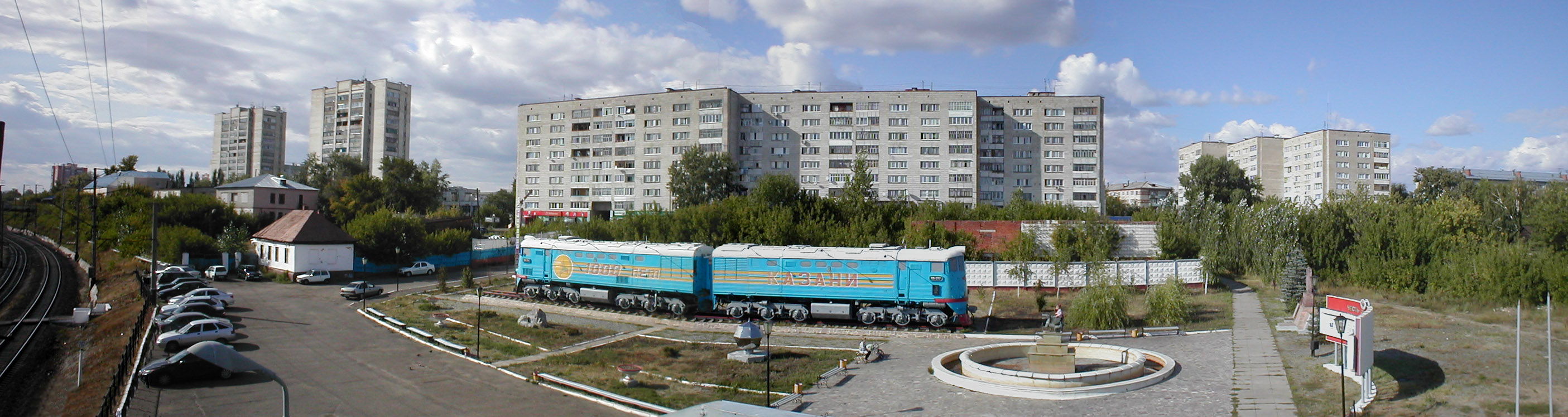 Kazan 1000 years square in Yudino locality in Kazan